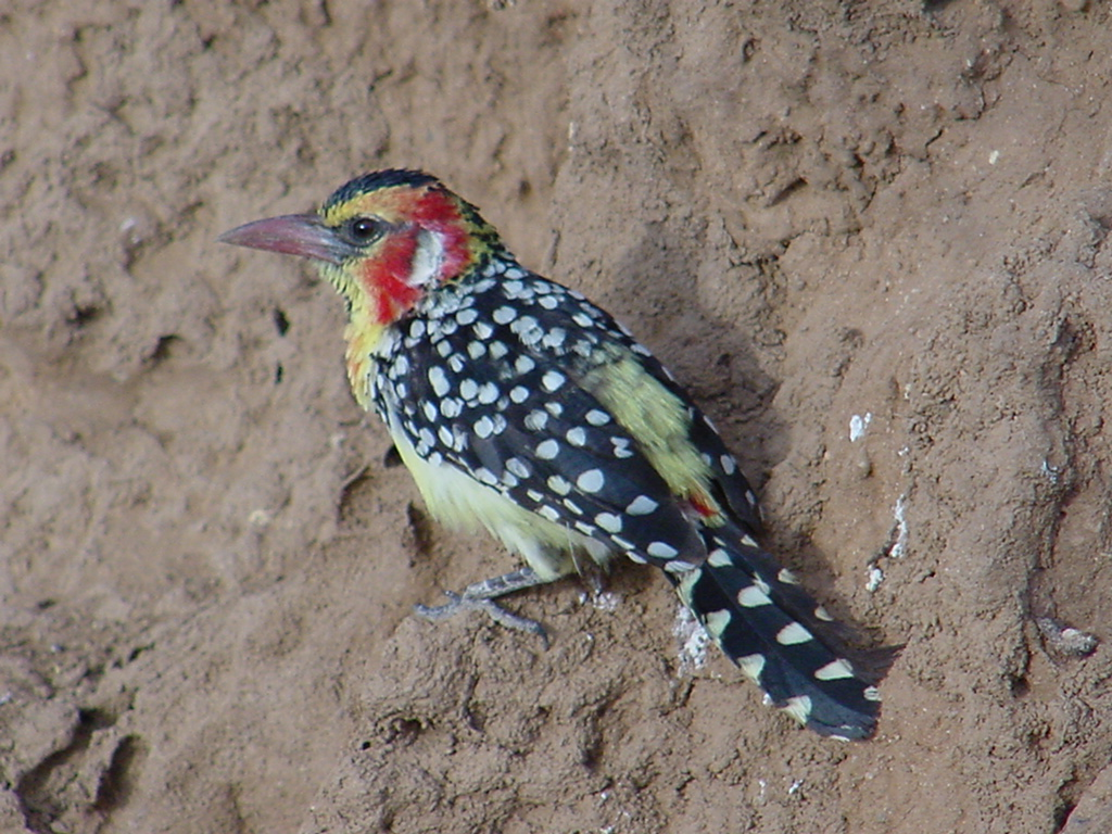 Red-and-yellow Barbet (Trachyphonus erythrocephalus) photographed in Samburu National Reserve, Kenya.